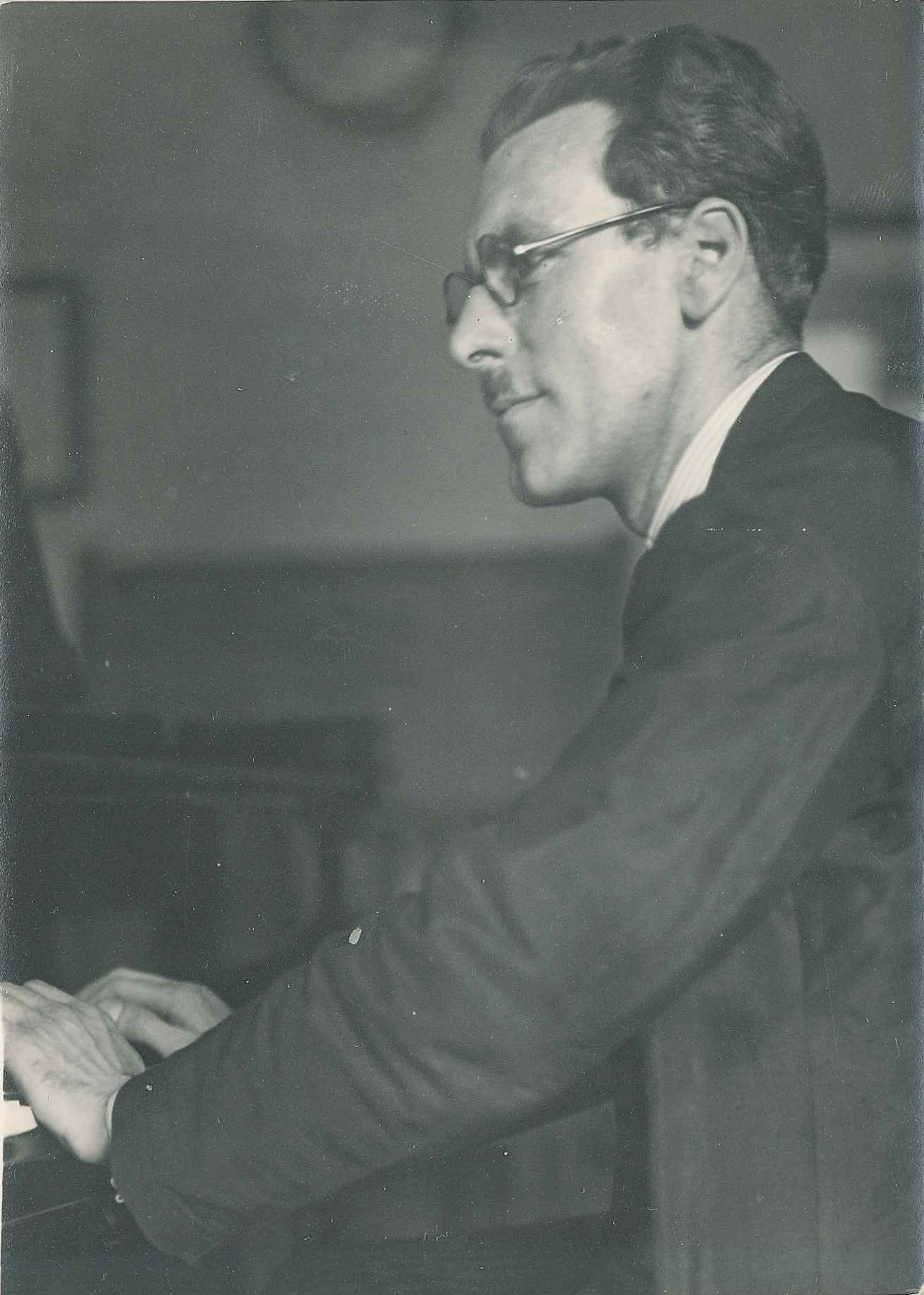 Maker: [unknown] Date: [1930s] Catalogue ref: William Lovelock Collection Description: Photograph of William Lovelock (1899-1986), English composer, organist, and writer on music. Studied organ at Trinity College of Music and later taught and examined for the college.